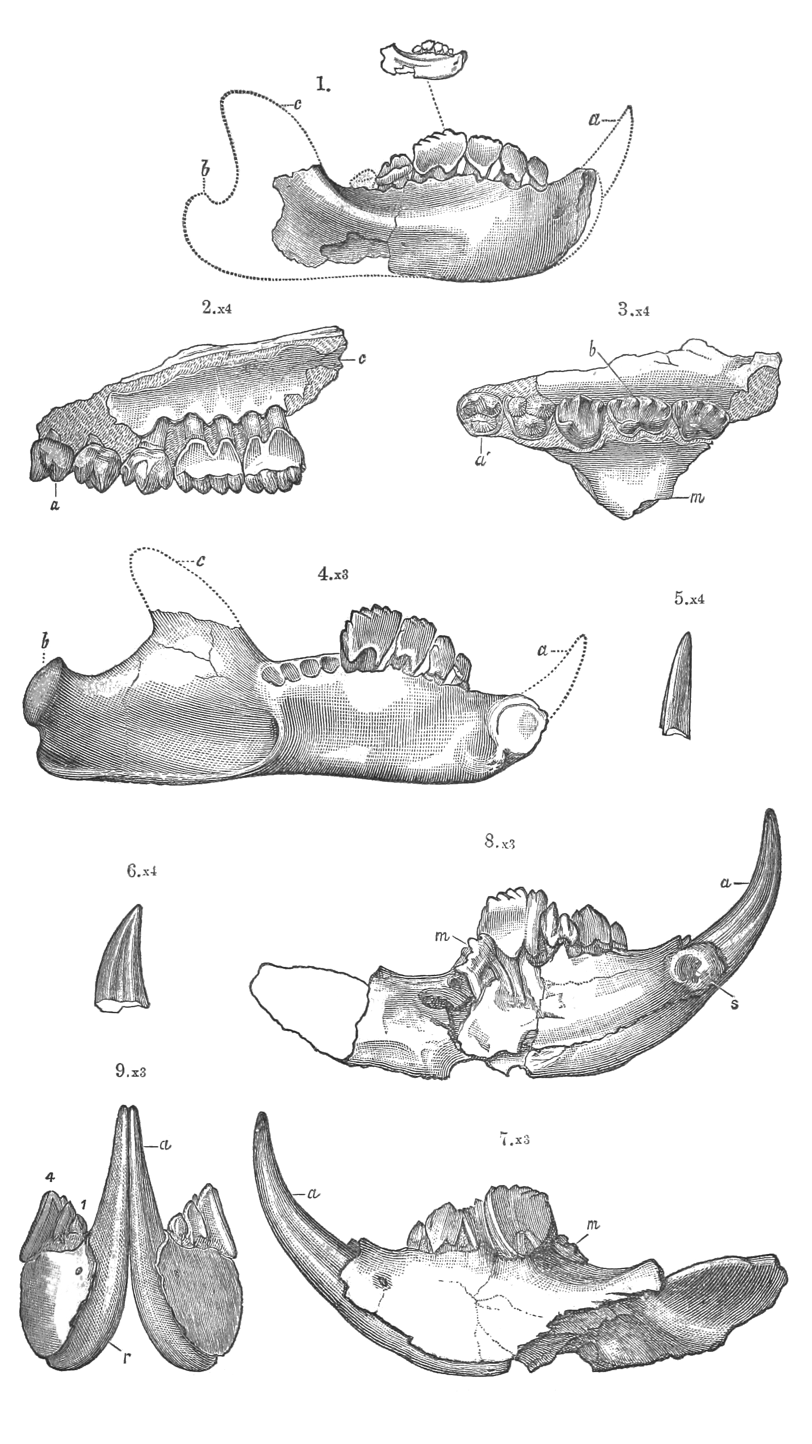 PLATE VII. Fig. 1. Eight lower jaw of Ctenacodon serratus, Marsh; outer view. The small figure is natural size, and the larger one is magnified four diameters. Fig. 2. Right upper jaw of Ctenacodon potens, Marsh.; inner view. 3. The same jaw ; seen from below. 4. Left lower jaw of Ctenacodon serratus; inner view. 5. Incisor, probably of same species ; seen from in front. 6. The same incisor ; seen from the side. 7. Left lower jaw of Ctenacodon poteois ; outer view. 8. The same jaw ; inner view. 9. The same jaw ; front view, with its fellow restored in place. In Figures 2 and 3, a’, first premolar; b, fourth premolar; c, second molar ; m, malar arch. In the lower jaws, a, incisor ; b, condyle ; c, coronoid process ; m, molar ; r, root of incisor ; s, symphyseal surface. Figures 2, 3, 5 and 6, are four times natural size, and Figures 4, 7, 8 and 9, are three times natural size.